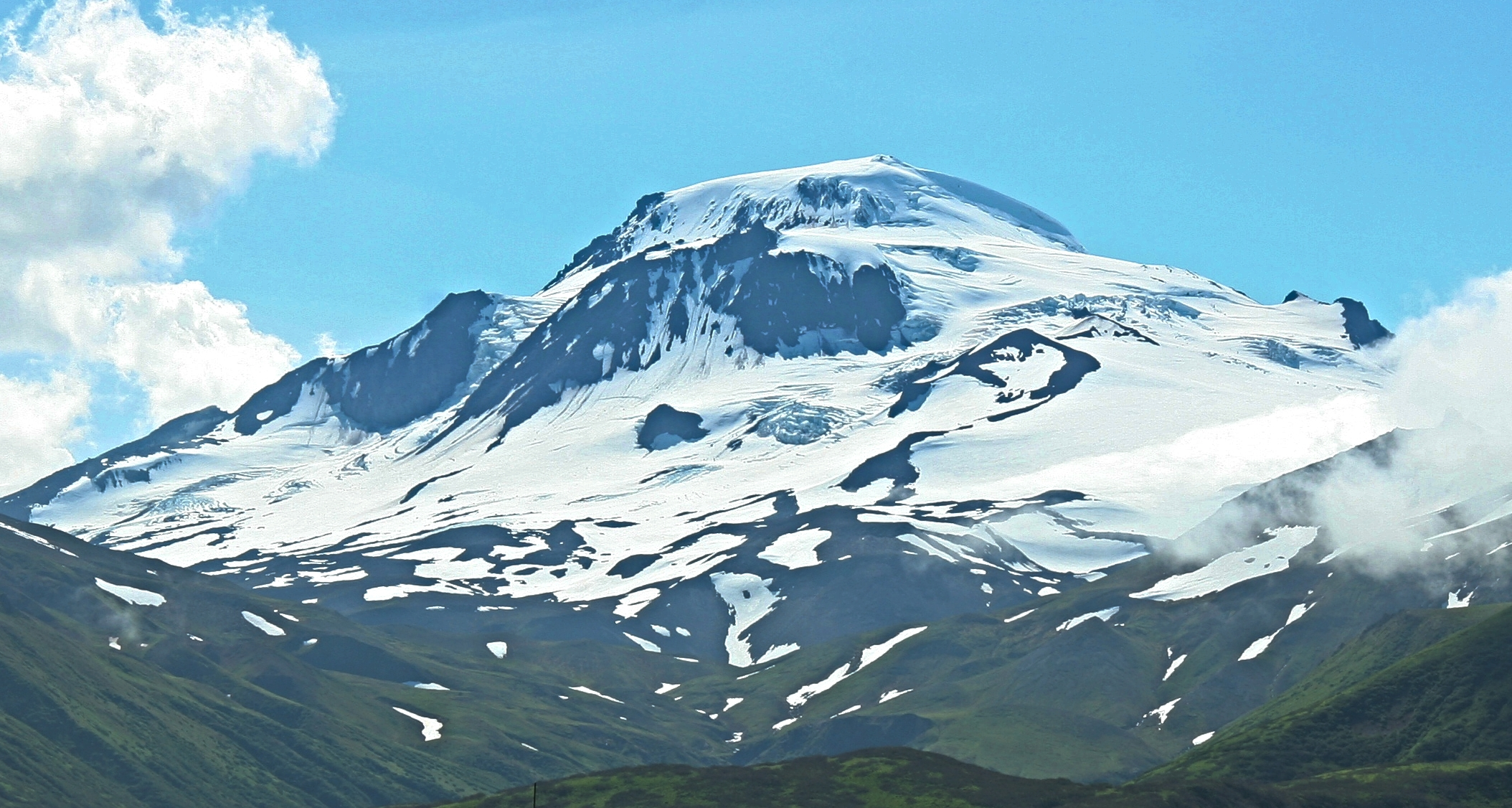 Mount Roundtop, a stratovolcano located on the Aleutian island of Unimak in the U.S. state of Alaska